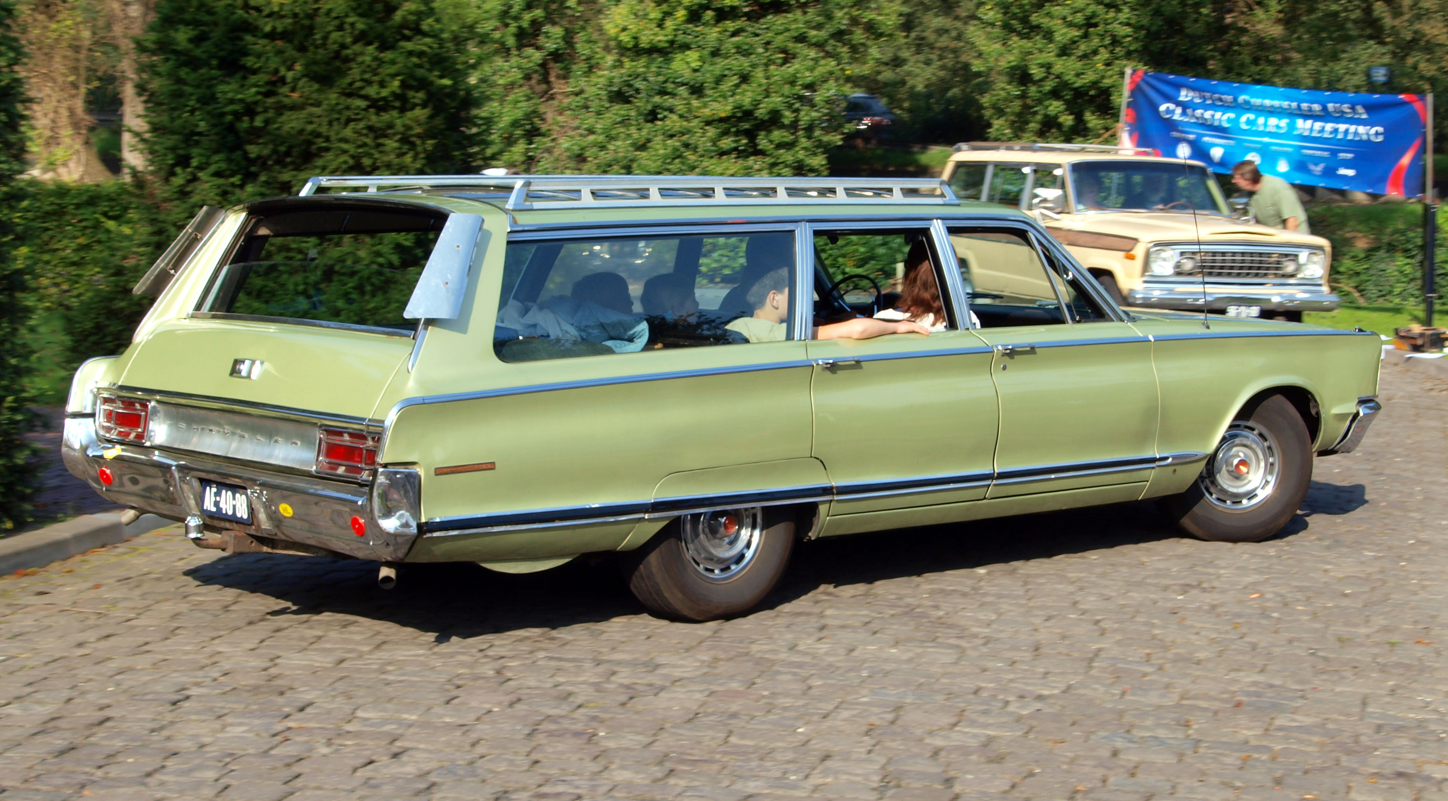 Photographed at the premmesis of the Louwman museum, The Hague, The Netherlands. OLYMPUS DIGITAL CAMERA